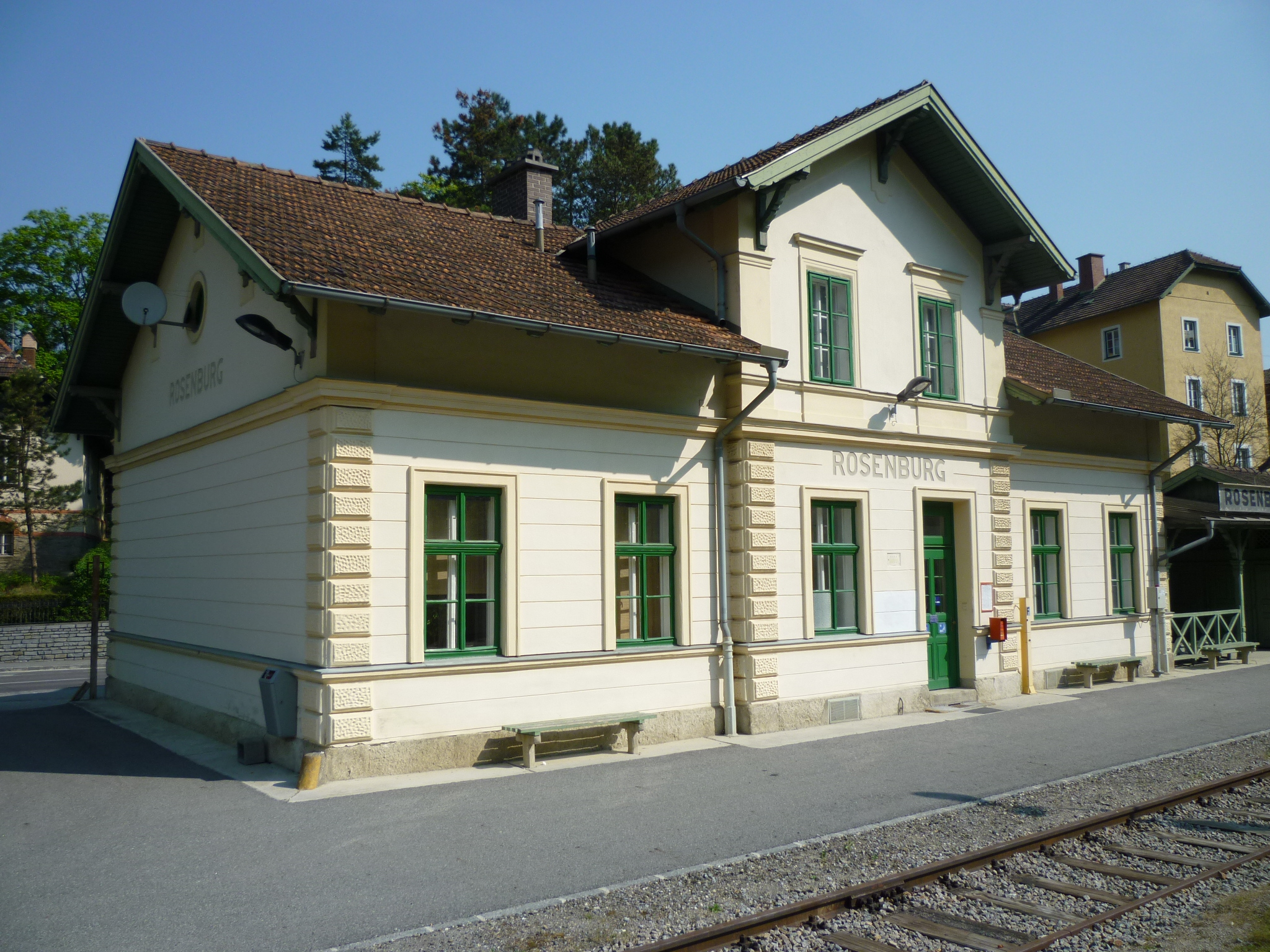 Rosenburg Railway Station, Rosenburg on Kamp, Upper Austria, Austria